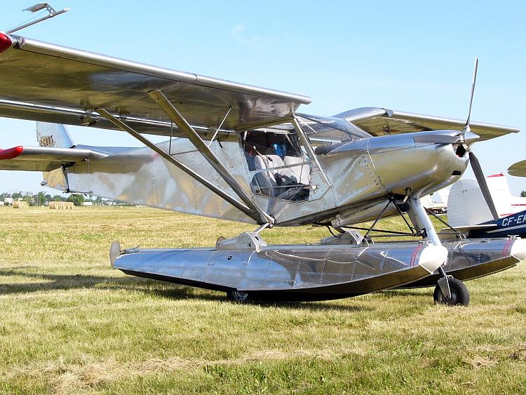 I took this photo of a Zenair CH 701 at Arnprior 10 July 2005